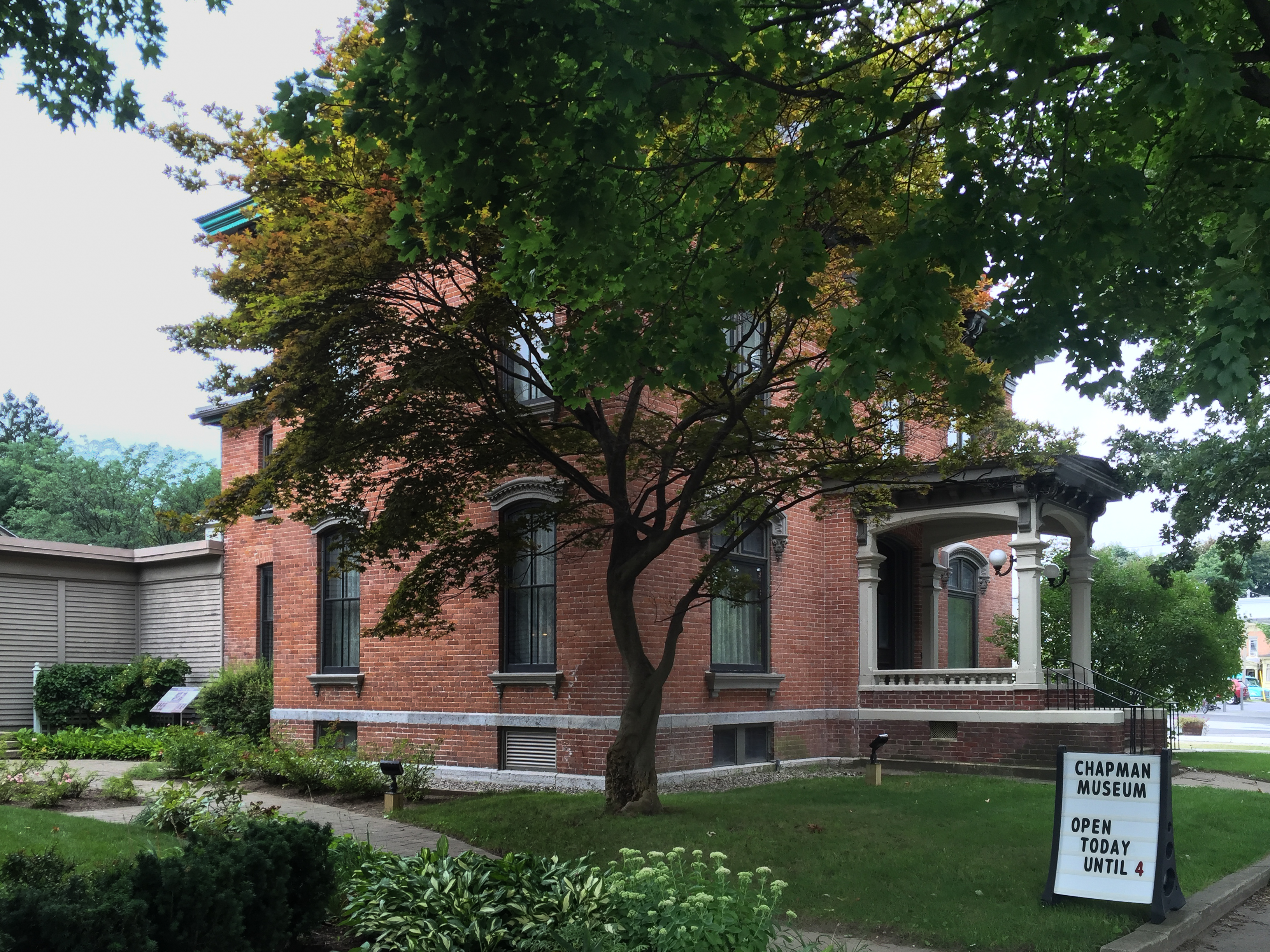 Chapman Historical Museum, Glens Falls NY. Also known as the Zopher Delong House.